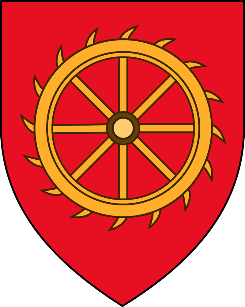 St Catharine's College Crest - flat